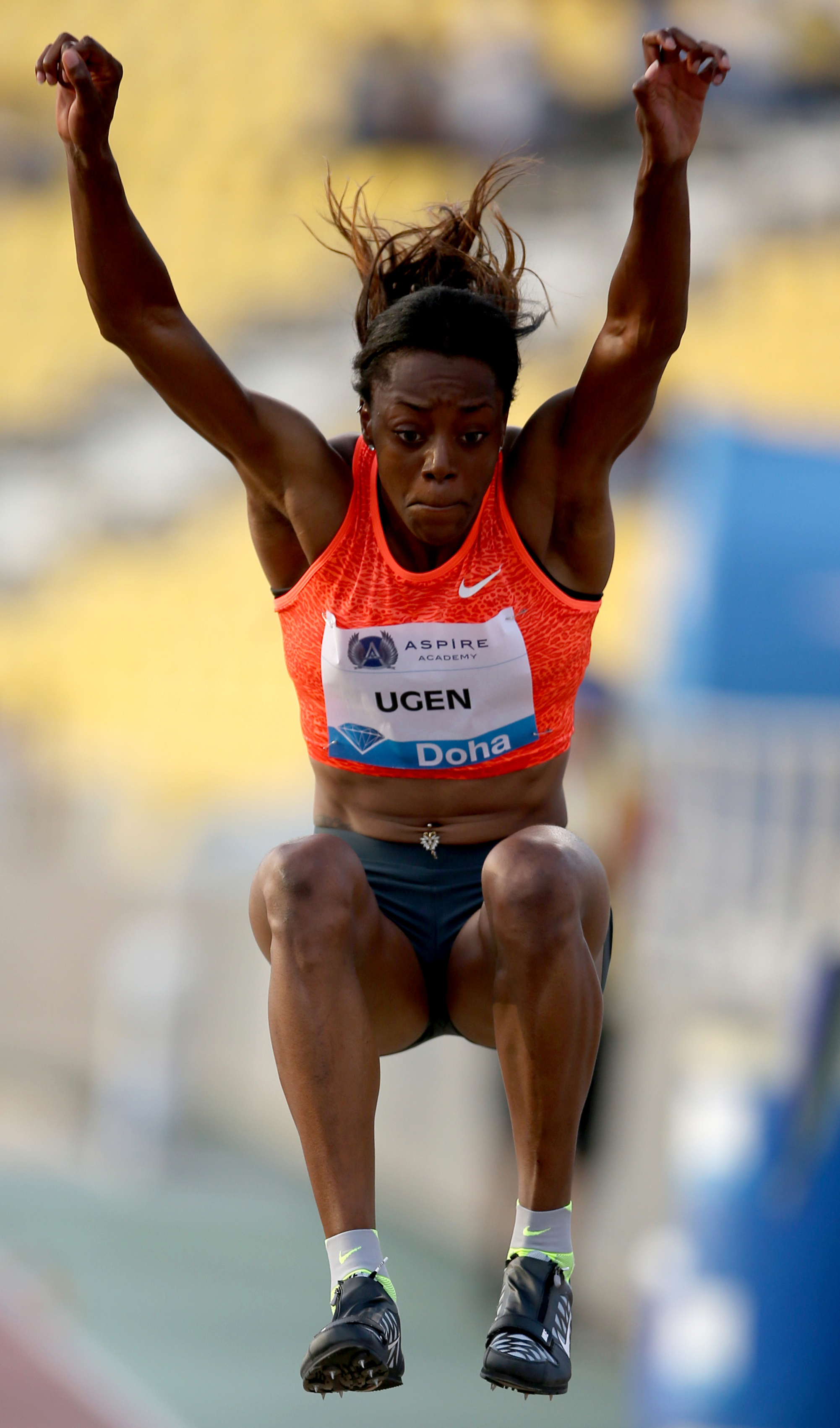 Great Britain's Lorraine Ugen competes in women's long jump at the Doha Diamond League.